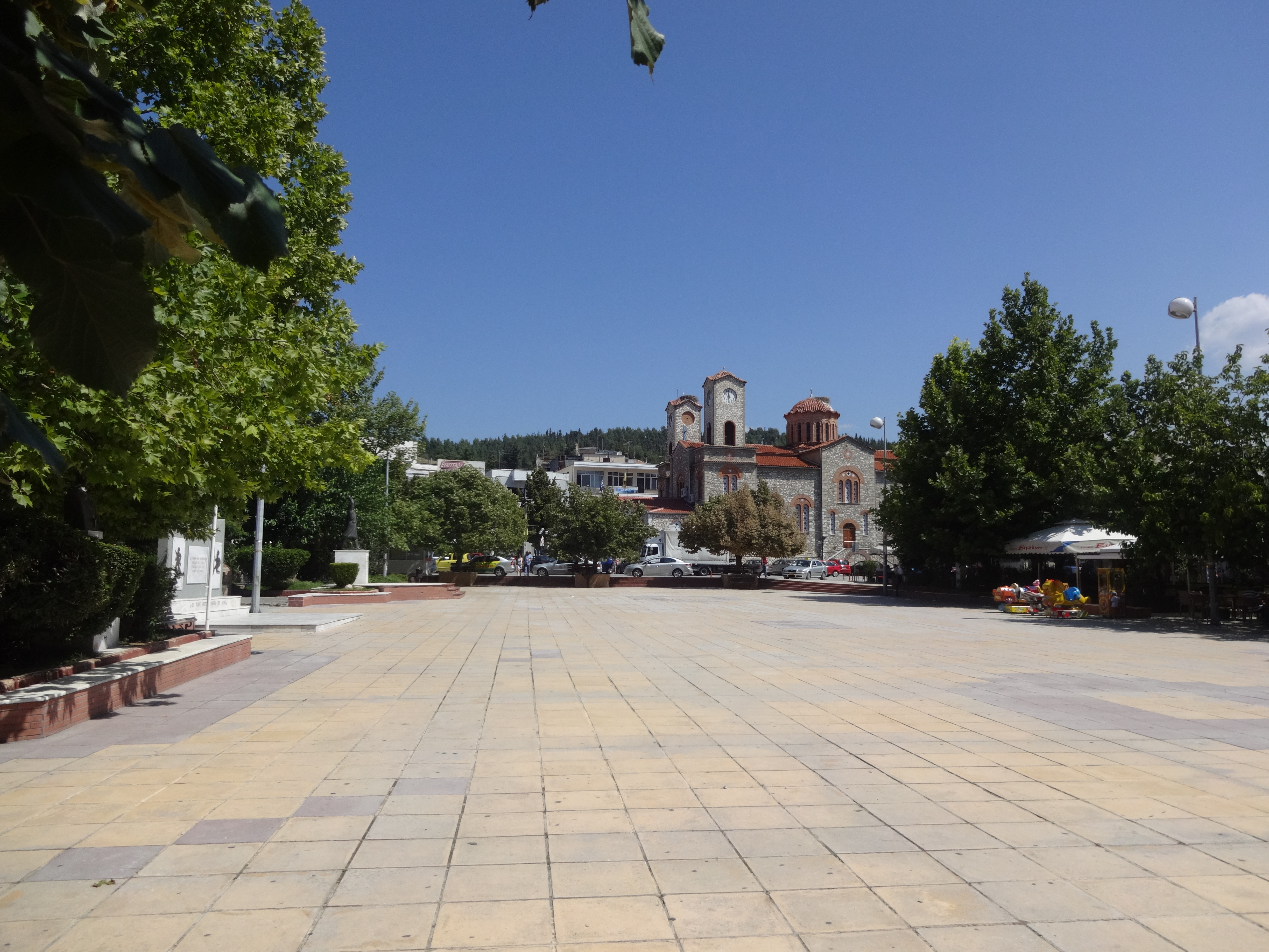 Elassona,Greece. Square and church of St. Demetrious.